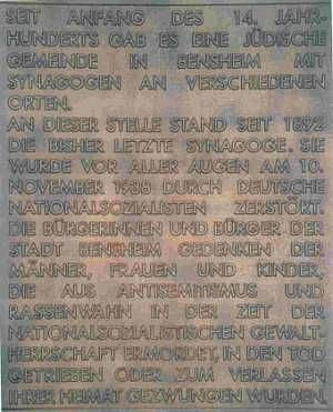 Commemorative plaque of the destruction of the synagogue of Bensheim in 1938 affixed in 1995.